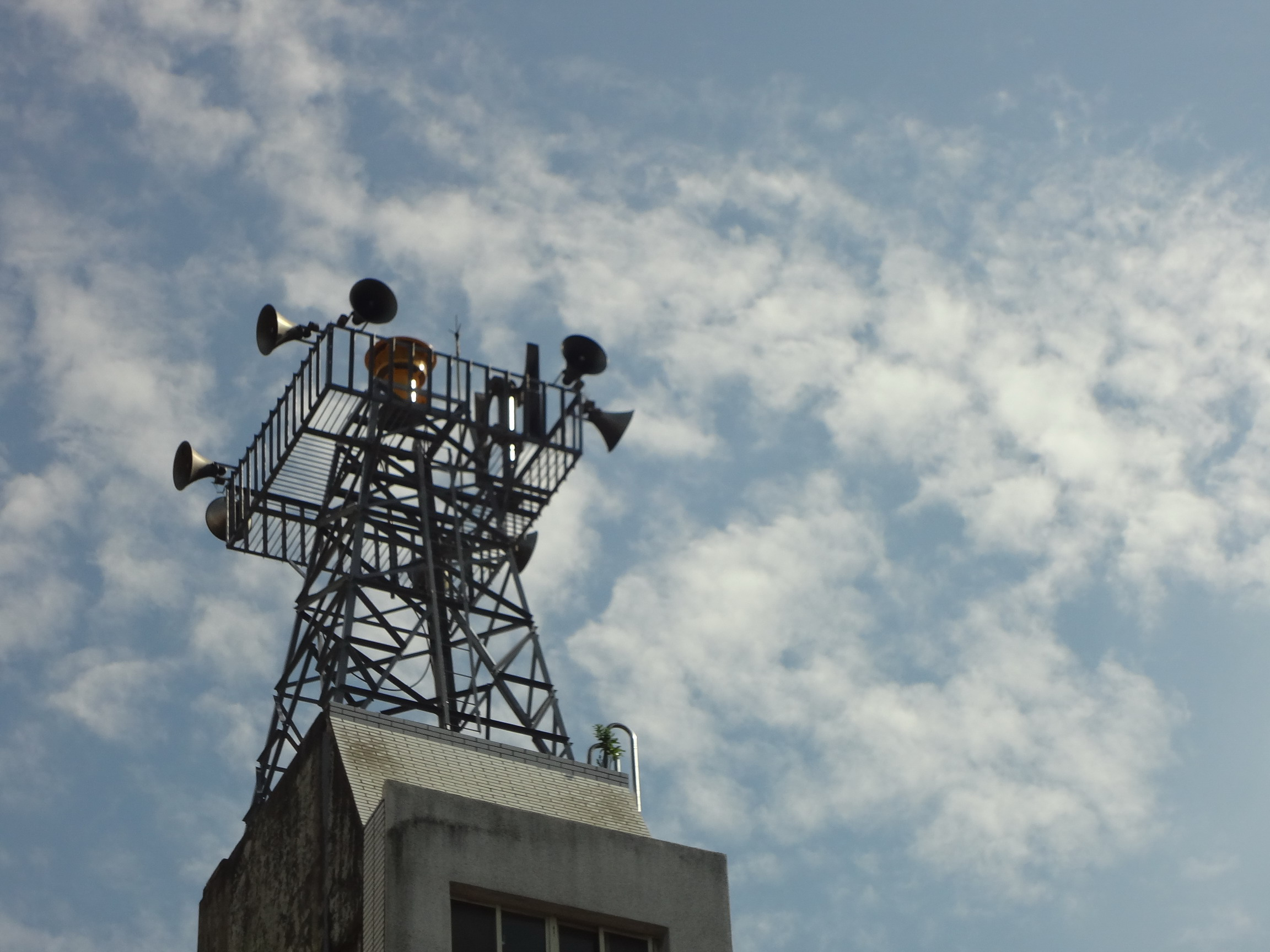 The Alarm of TCPD Minzu Rd. Police Station